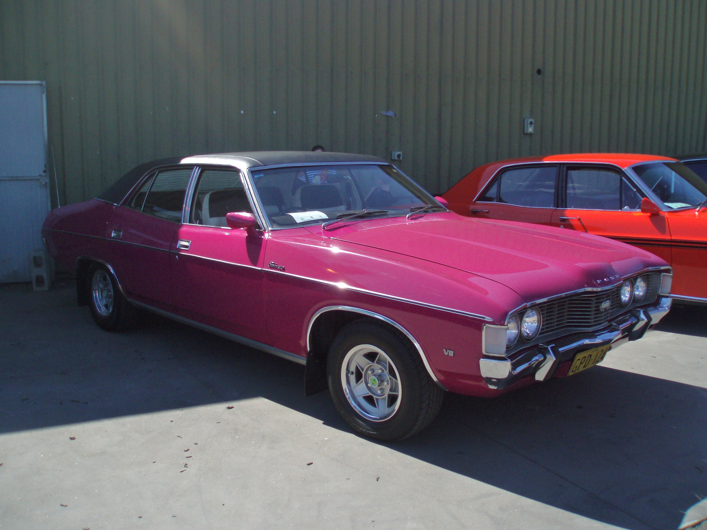 1973 Ford ZF Fairlane 500 sedan. Colour is called "Wild Plum" and is unusual on a Fairlane. Taken at Shannon's Eastern Creek Classic 2009, held at Eastern Creek Raceway Sydney.